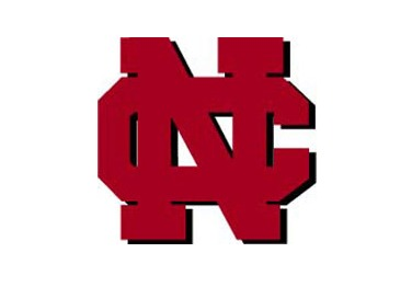 North Central College Logo